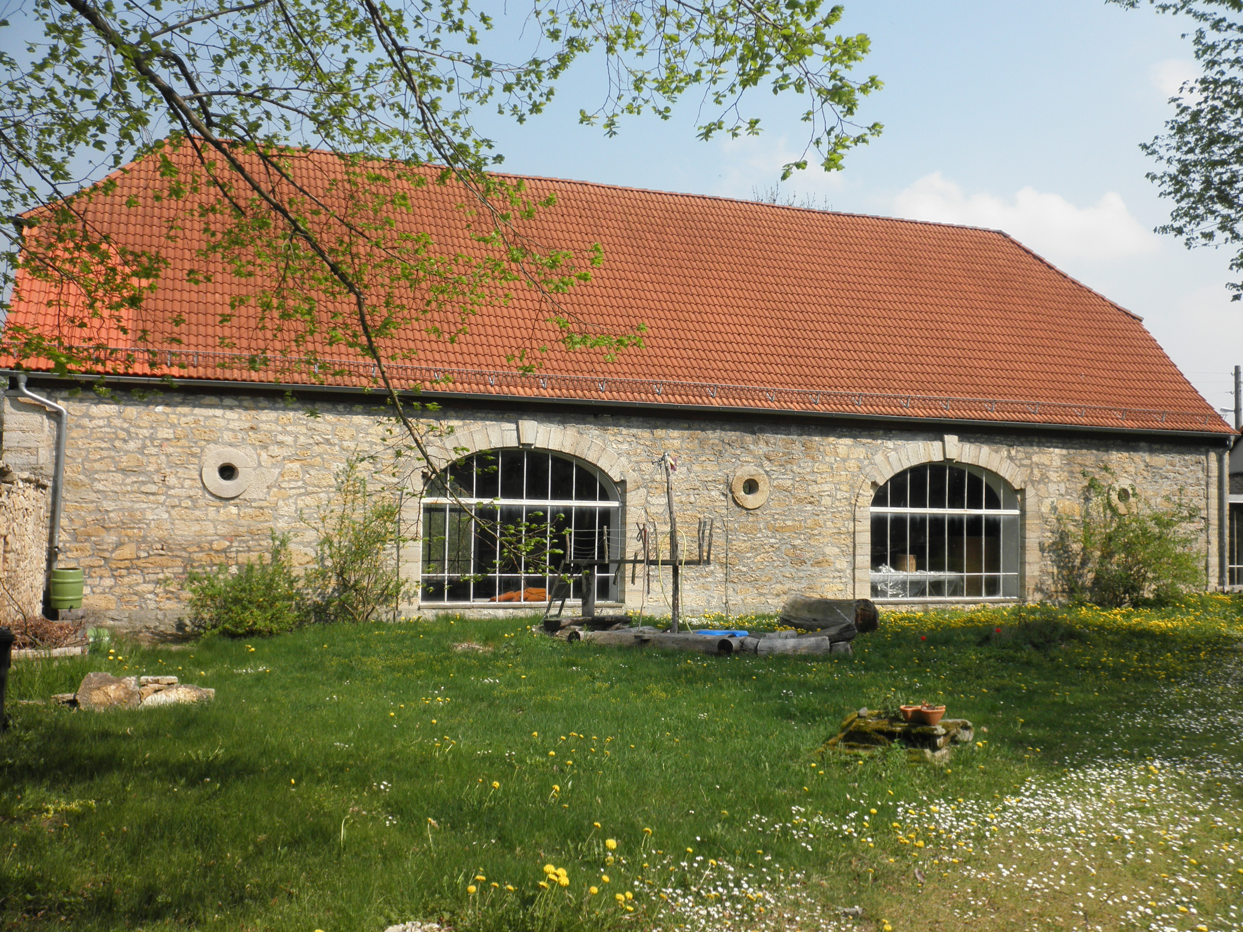 Estate in Tännich in Thuringia